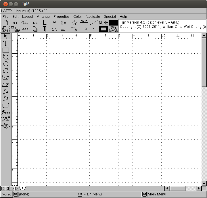 Screenshot of Tgif Version 4.2.5